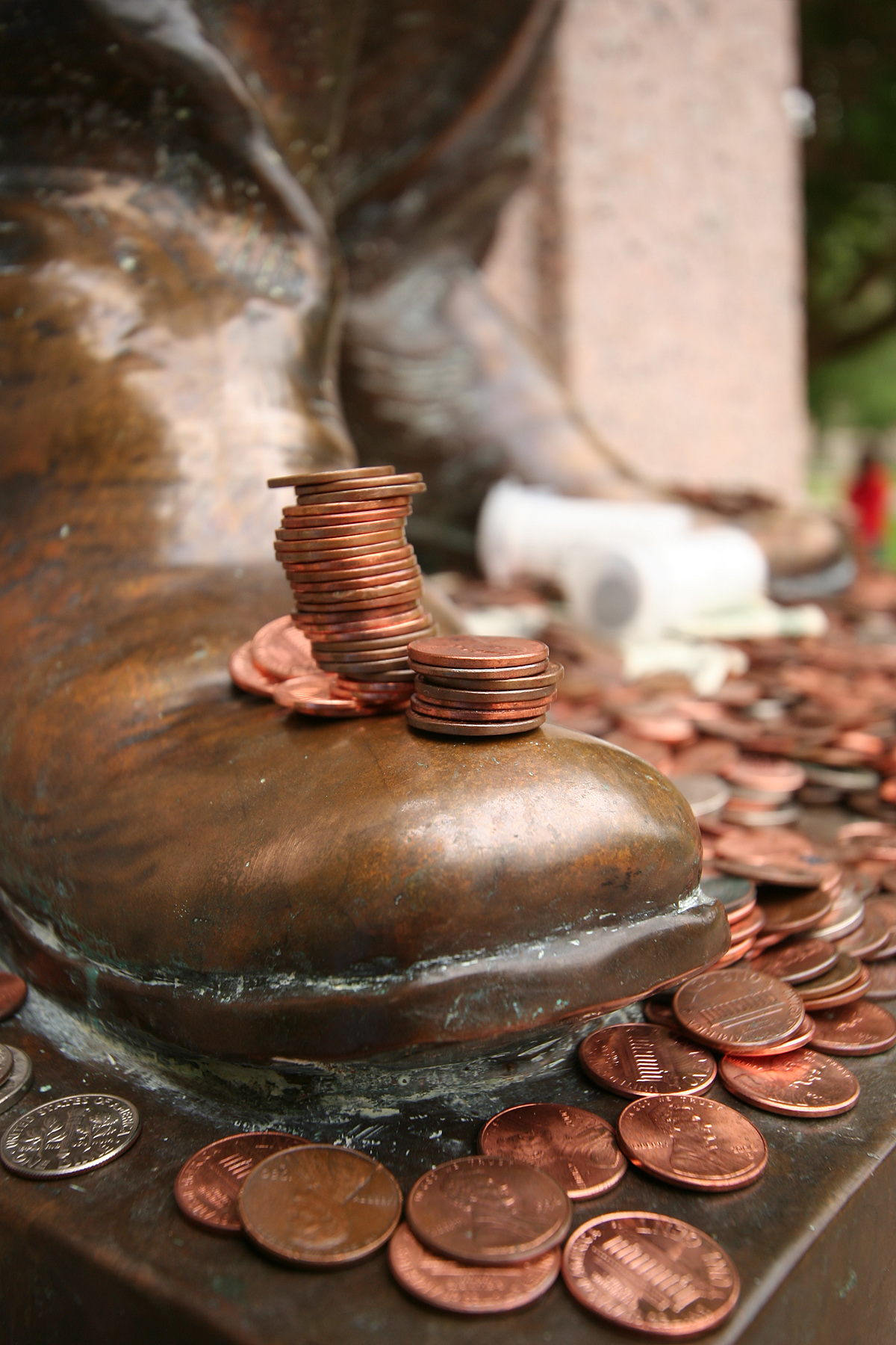 Students at Texas A&M University stack pennies at the feet of the Lawrence Sullivan "Sul" Ross statue for good luck on exams. Photo taken from Flickr.